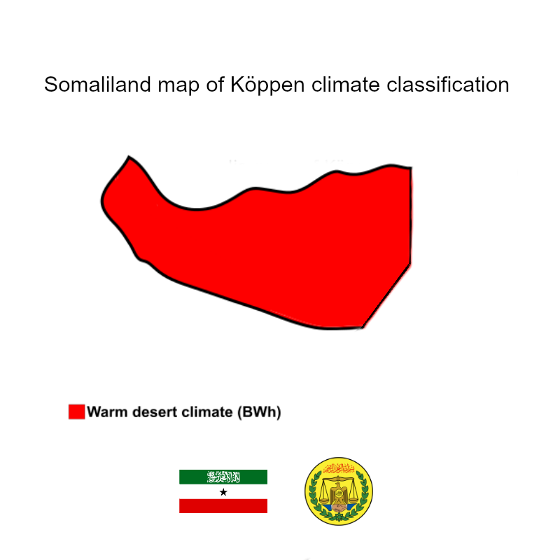 Somaliland map of Köppen climate classification